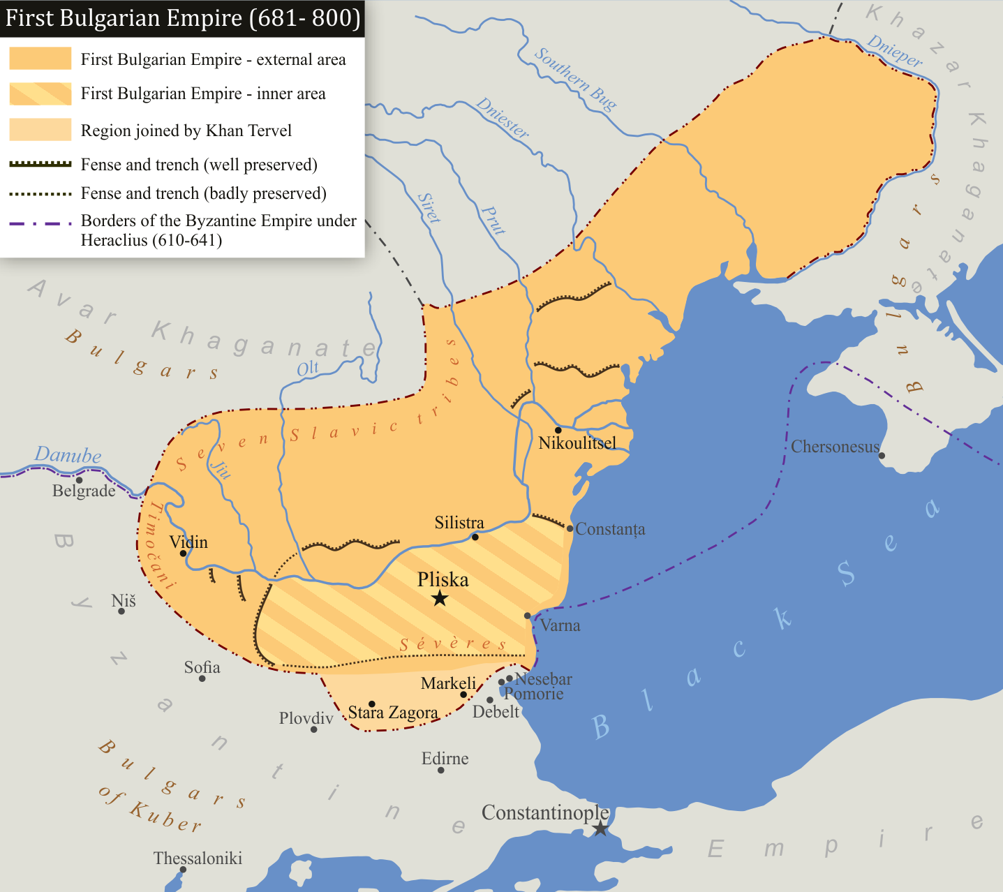 First Bulgarian Empire (681-800) Основана на Карта № 1. "Начална територия на България по Долни Дунав и северозападното Черноморие (681—800 г.)" в книгата "Политическа география на средновековната българска държава. Част I. От 681 до 1018 г.", Петър Коледаров, София, 1979 г., Издателство на Българска Академия на науките. [1]